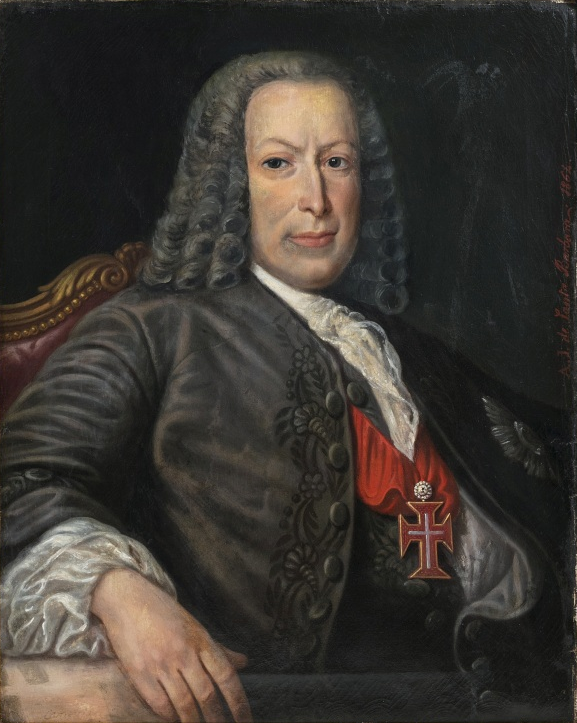 The Marquis of Pombal, 1864 by António Joaquim de Santa Bárbara